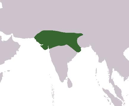 This map has been uploaded by Electionworld from to enable the Wikimedia Atlas of the World . Original uploader to was Vastu, known as Vastu at . Electionworld is not the creator of this map. Licensing information is below. Rajputs. Made by uploader.